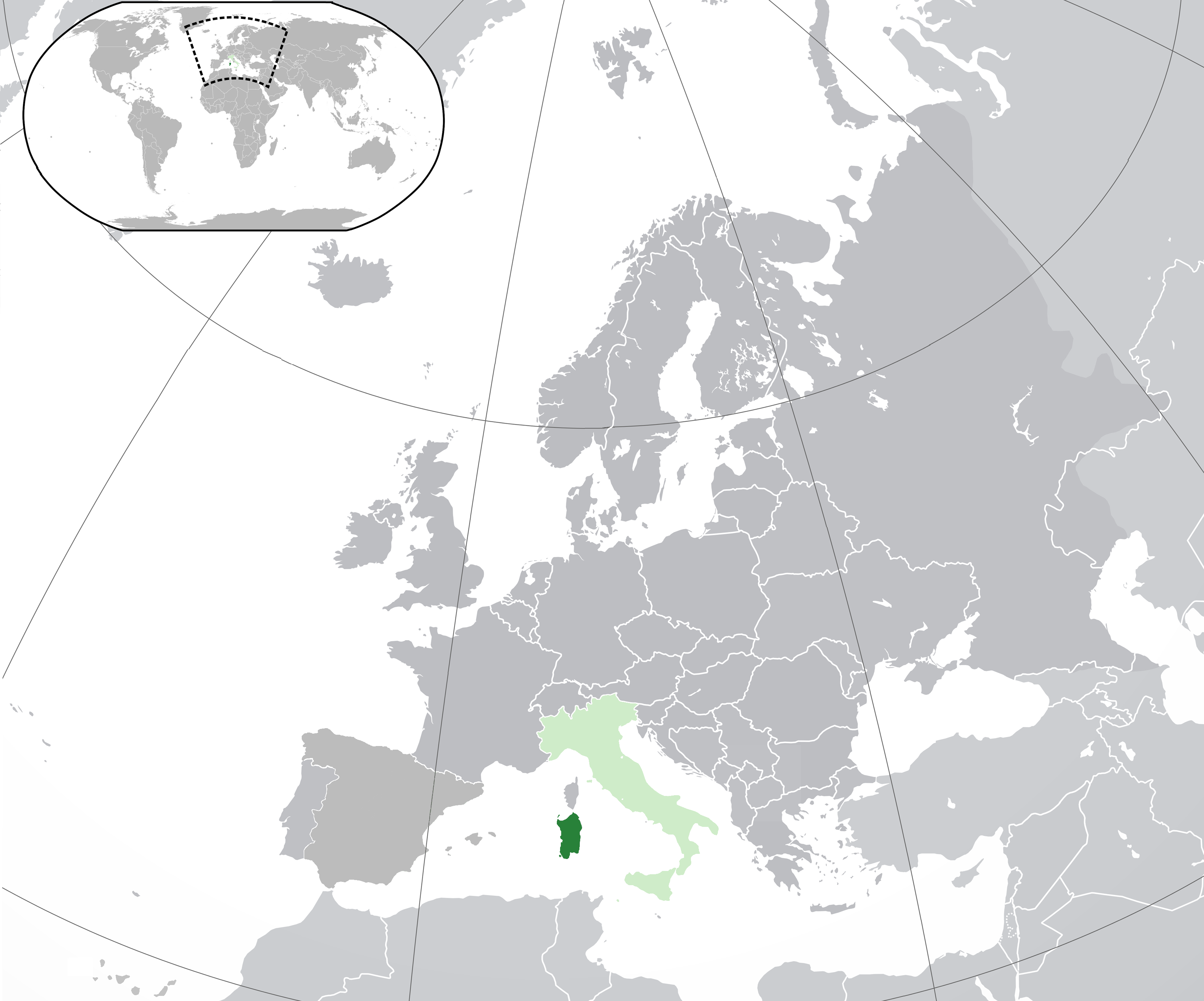 Location of Sardinia in Italy and Europe. Sardu: In ue est sa Sardigna in Itàlia e in Europa.